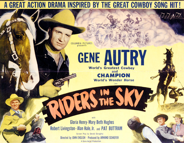 The poster